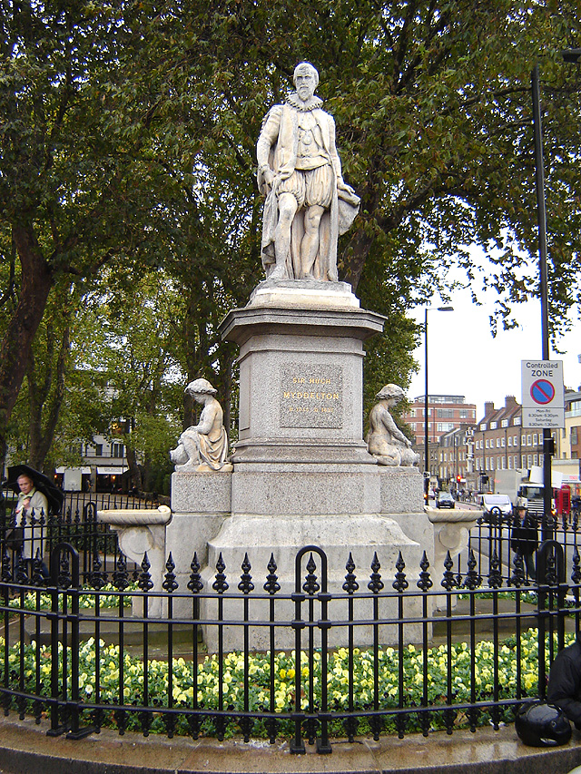 Statue of Sir Hugh Myddelton surmounting fountain,Islington Green, Islington, London. 5 November 2005. Photographer: Fin Fahey.